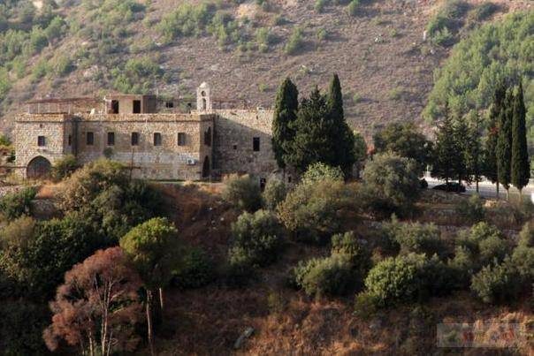 Abdo Yamine « Zakrit between yesterday and today »